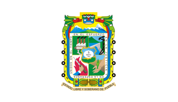 Flag of the State of Puebla, Mexico.